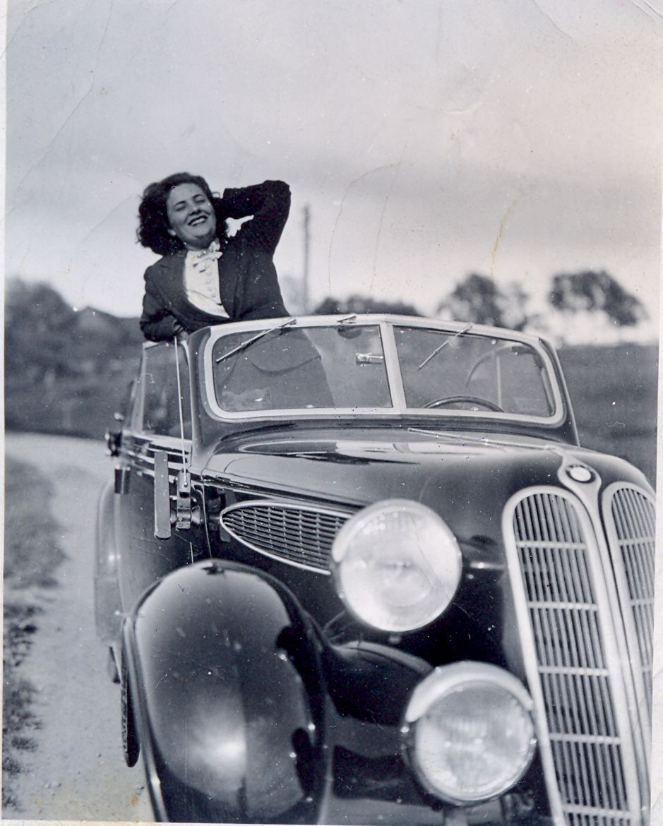 Bulgarian opera singer Ljuba Welitsch